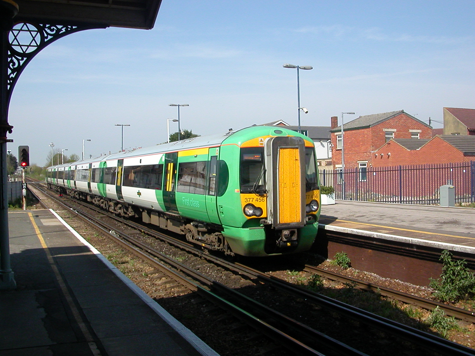 EMU 377456 arriving at Platform 2 at Worthing. Photographed on 22nd April 2007.